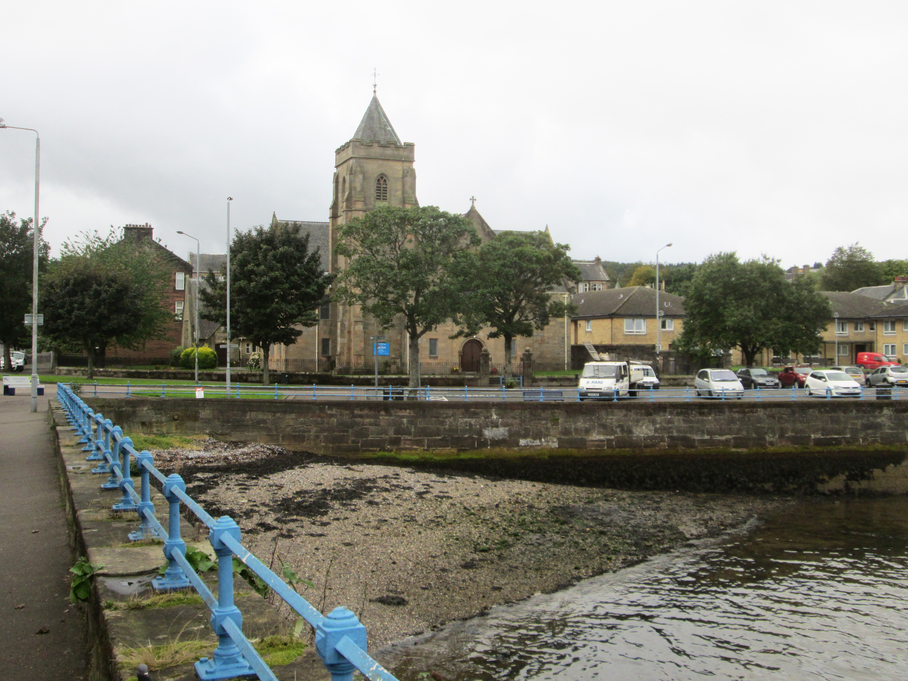 The Old West Kirk in Greenock, seen from Campbell Street looking towards the Esplanade with the Firth of Clyde shore in the foreground